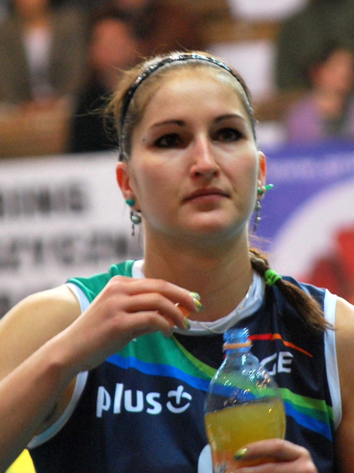 Corina Ssuschke, german volleyball player